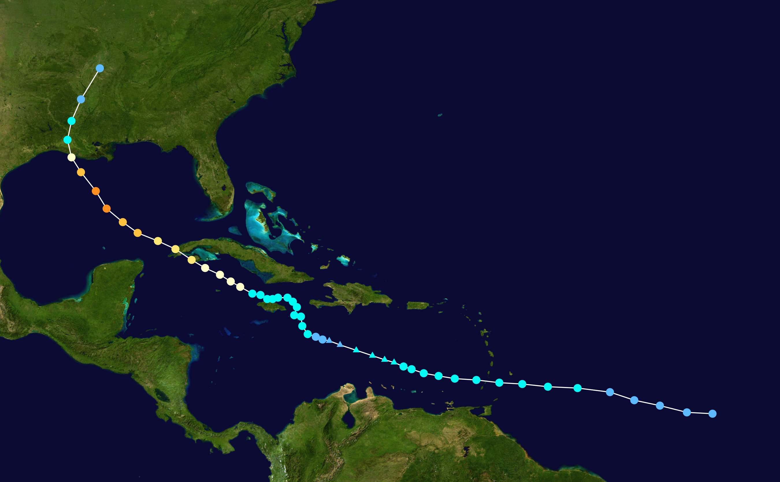 Track map of Hurricane Lili of the 2002 Atlantic hurricane season. The points show the location of the storm at 6-hour intervals. The colour represents the storm's maximum sustained wind speeds as classified in the Saffir–Simpson scale (see below), and the shape of the data points represent the nature of the storm, according to the legend below. Saffir–Simpson scale Tropical depression≤38 mph≤62 km/h Category 3111–129 mph178–208 km/h Tropical storm39–73 mph63–118 km/h Category 4130–156 mph209–251 km/h Category 174–95 mph119–153 km/h Category 5≥157 mph≥252 km/h Category 296–110 mph154–177 km/h Unknown Storm type Tropical cyclone Subtropical cyclone Extratropical cyclone / Remnant low / Tropical disturbance / Monsoon depression